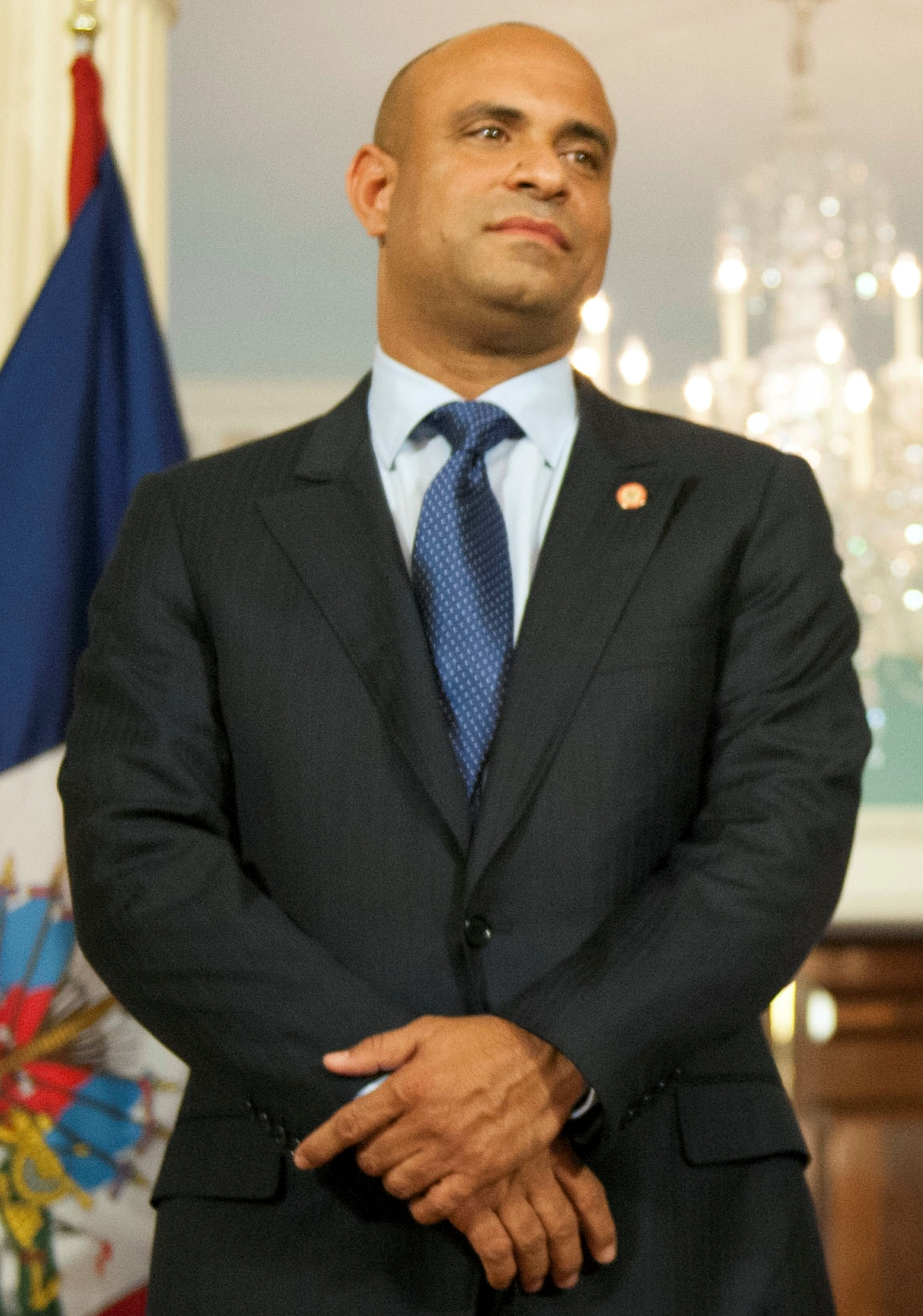 Haitian Prime Minister Laurent Lamothe at the Department of State in Washington, D.C., October 9, 2014